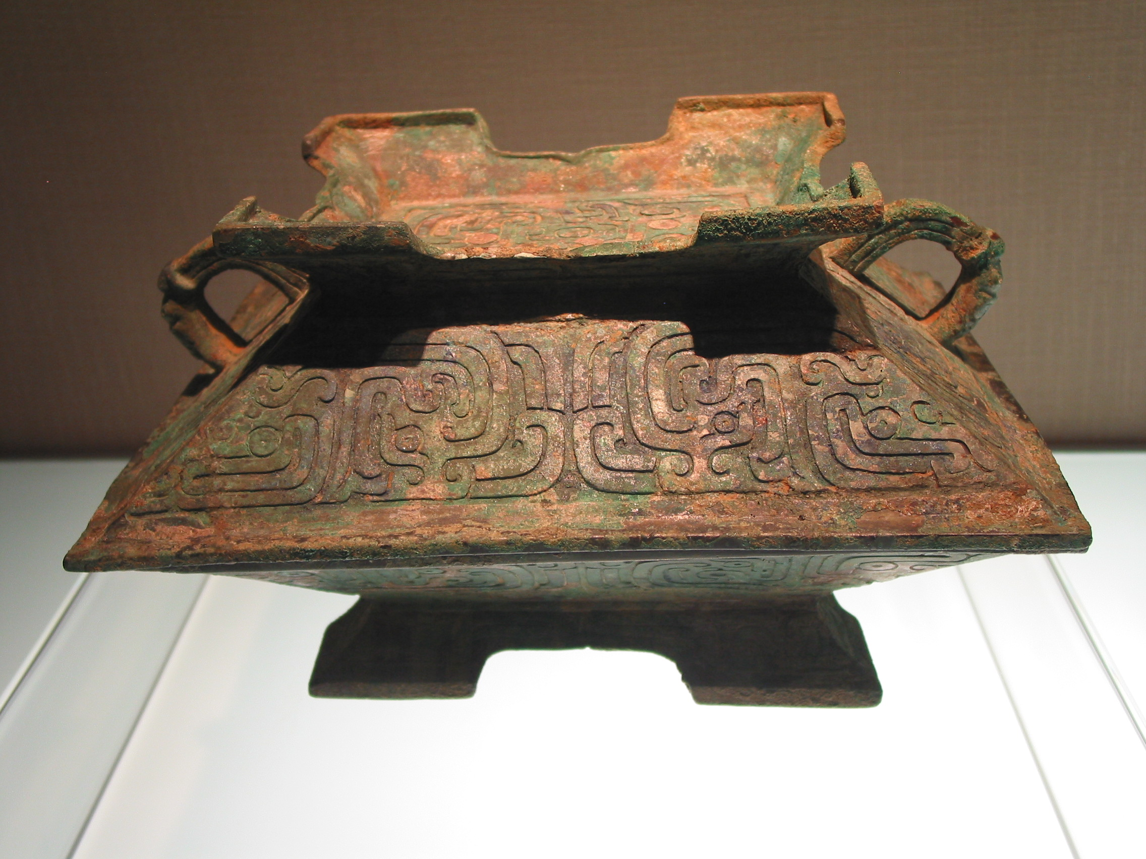 Fu (象首纹簠) in Capital Museum, Beijing, China